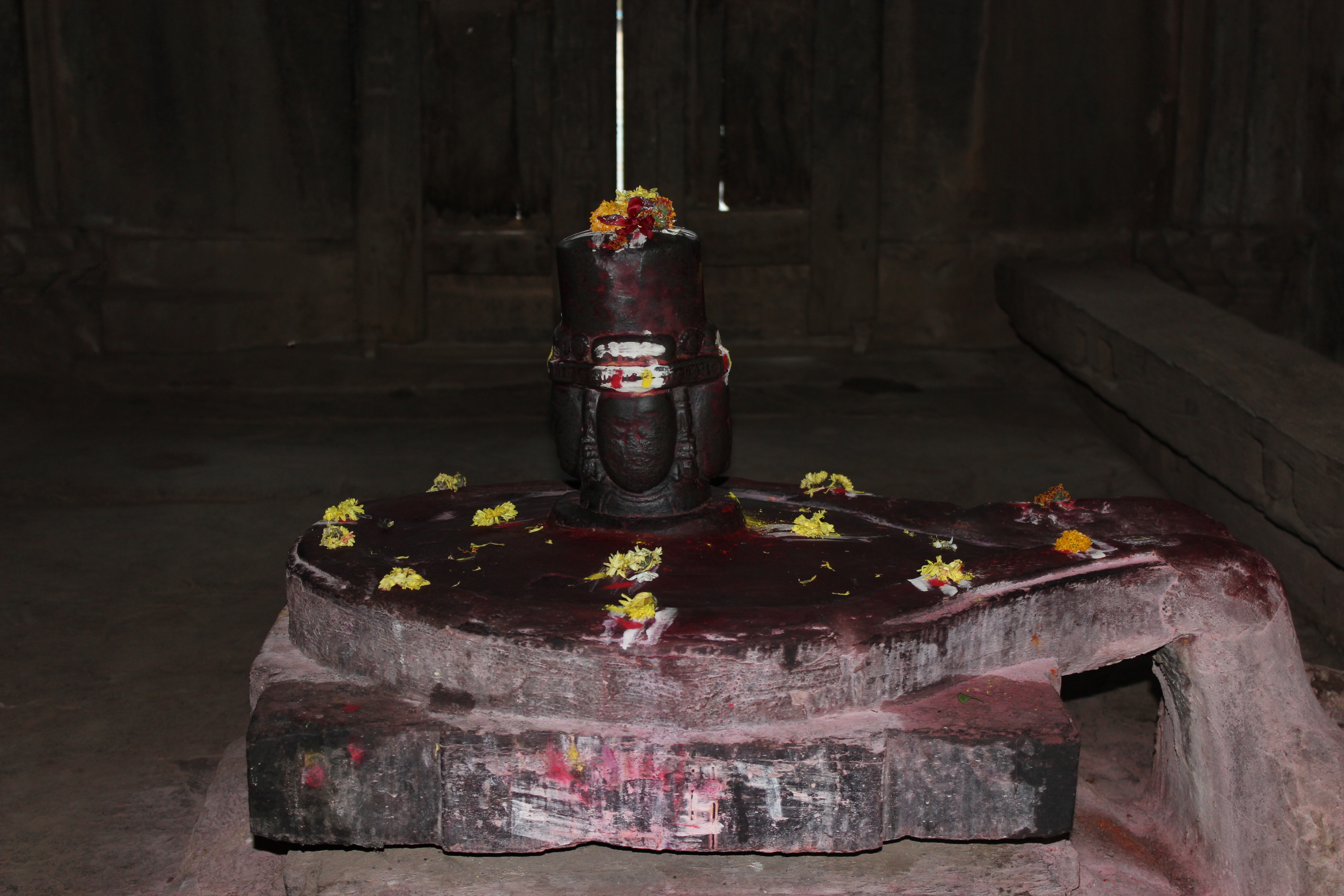 One of the two lingams atChandramouleshware Temple, Hubli is Chaturlingam, a four faced Shiva lingam.